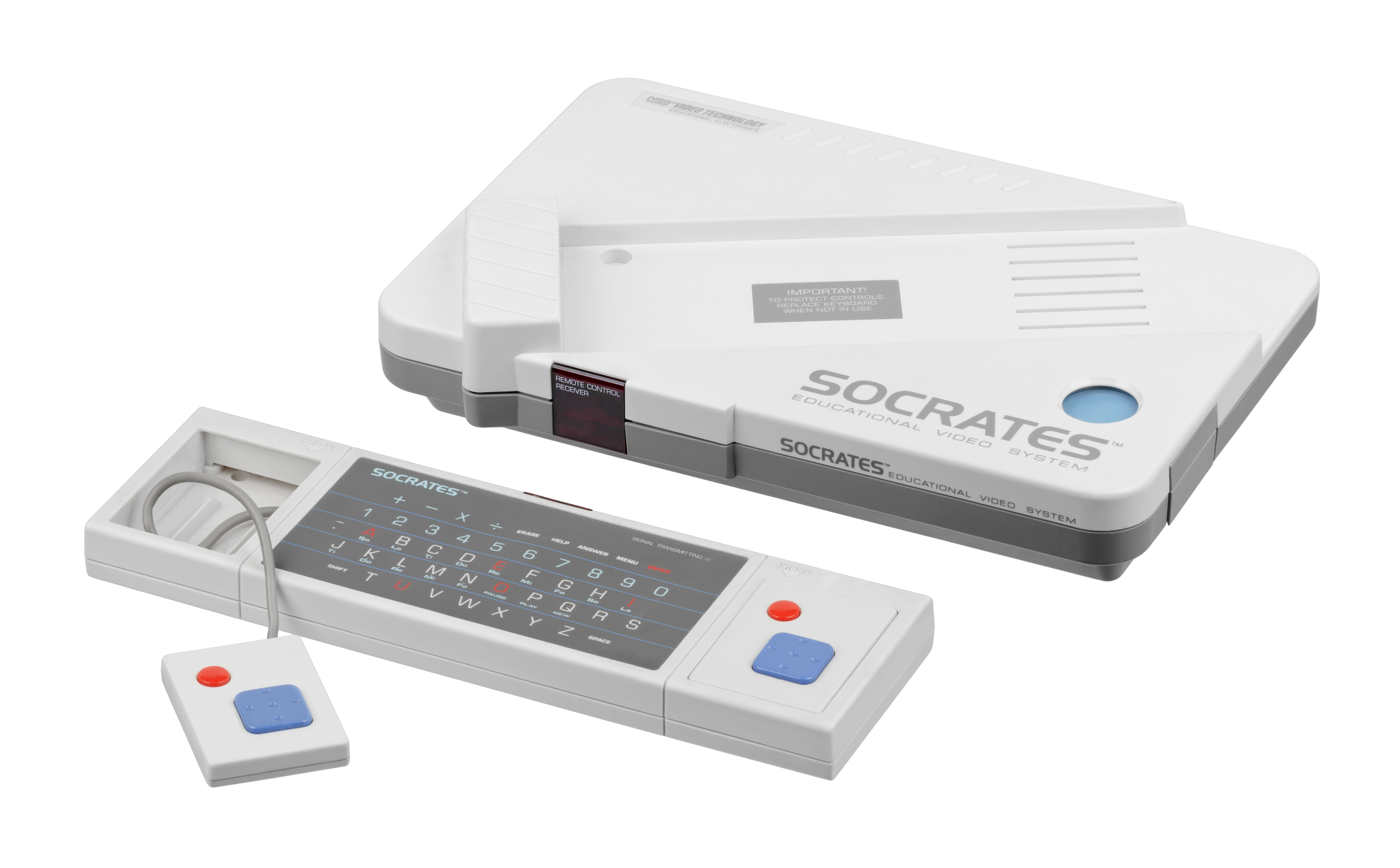 The Socrates, an educational entertainment ("edutainment") video game console released in 1988 by VTech. The first in a line of edutainment consoles still being released today by VTech, the Socrates was marketed to kids and played simple teaching games. A wireless keyboard controlled the system, which featured two break-out joypads, and a mouse and tablet controller were sold separately. The system ran off 6 D batteries or could use an optional AC adapter.